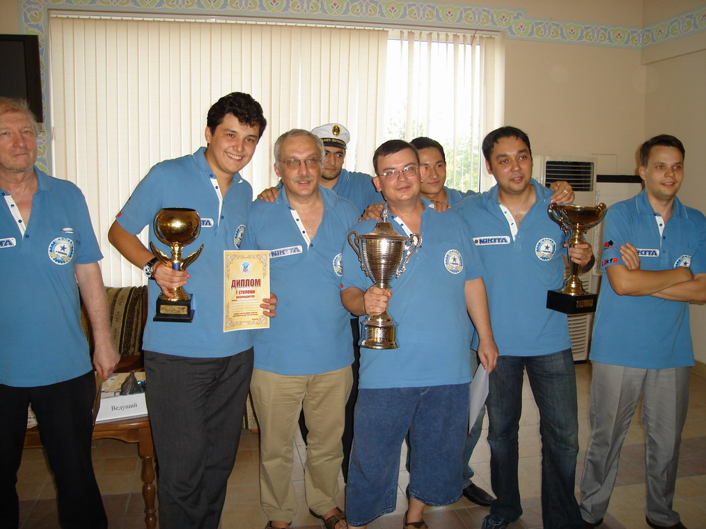 OKT-2009 Nikita Mobile TT